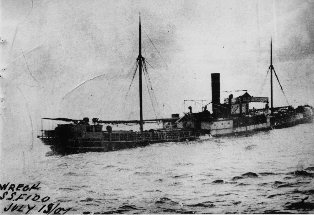 Bech & Olsen's 1,433 GRT cargo and passenger steamship Fido, wrecked off Cook Island, near Fingal, northern New South Wales. (From description supplied with photograph).